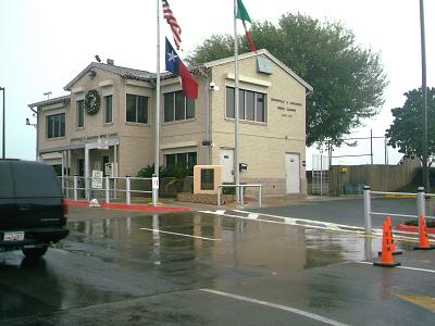 The administration office and pedestrian South bound lane at the Brownsville & Matamoros Bridge in Brownsville, Texas.